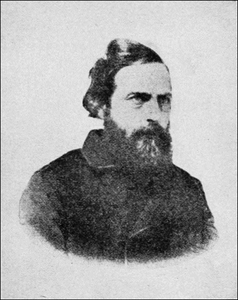 Theodore Charles Hilgard